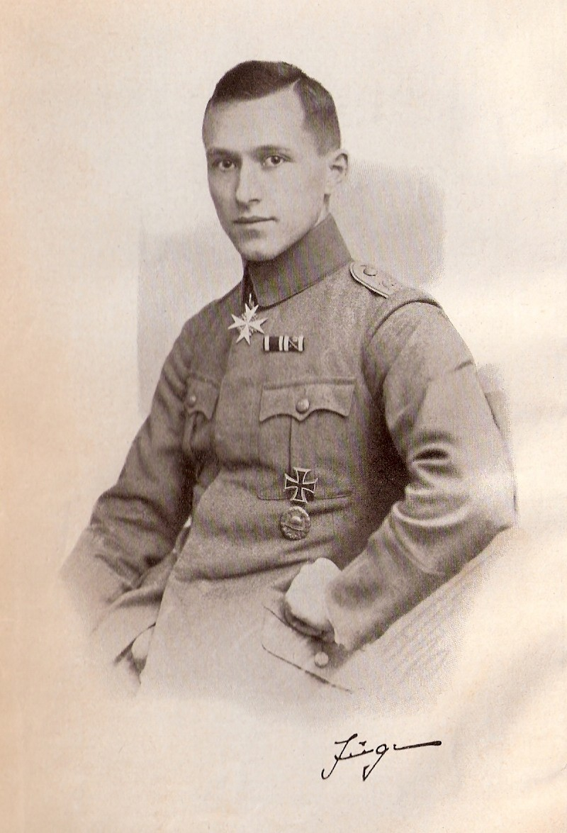 Ernst Jünger showing him in military dress, wearing (top to bottom) the Pour le Mérite, the House Order of Hohenzollern with Swords ribbon (peacetime variant), the Iron Cross and the Wound Badge.